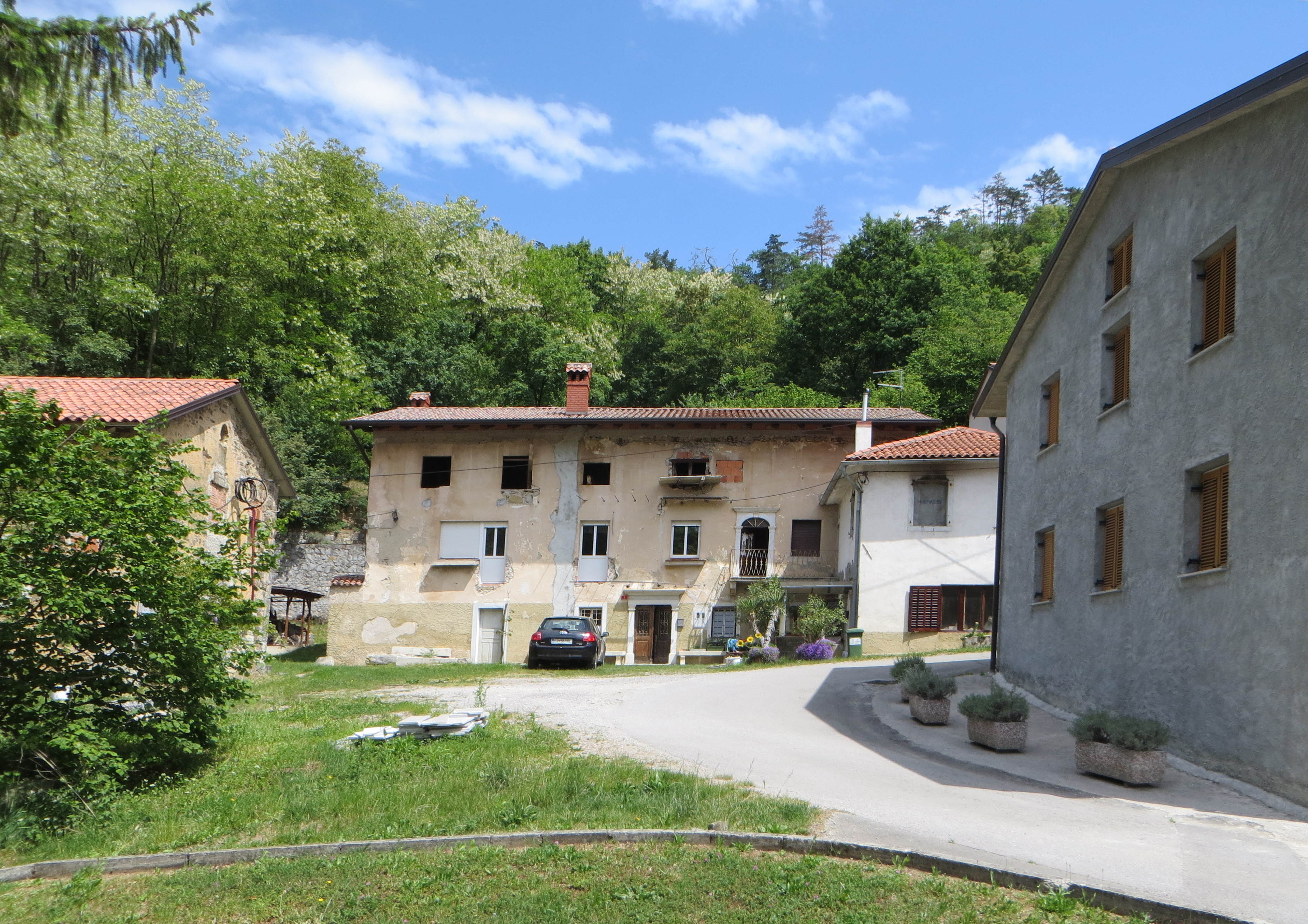 The hamlet of Dolnja Vas in Dolanci, Municipality of Komen, Slovenia